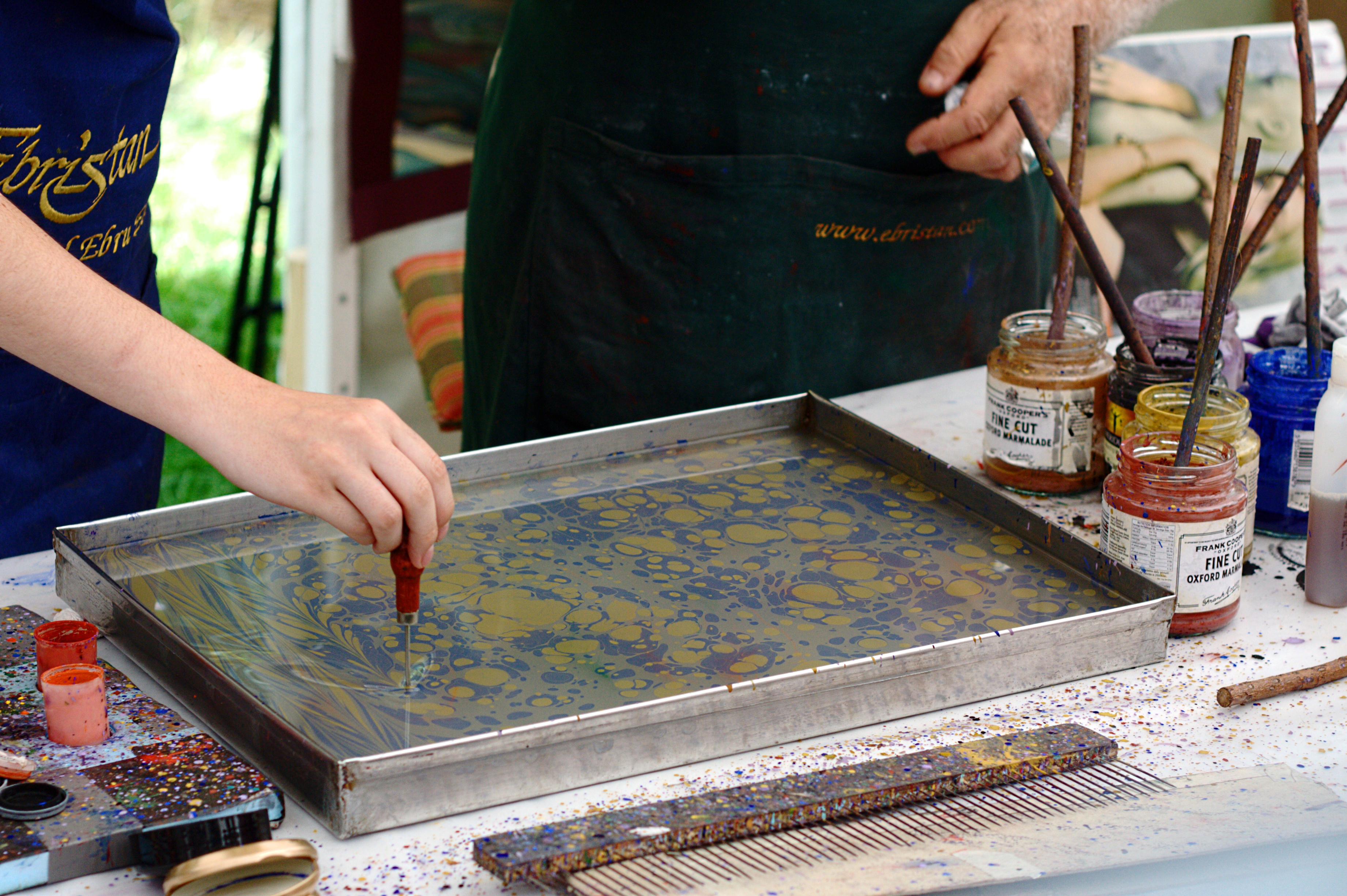 Oil-based inks in a tank of water being prepared for marbling.